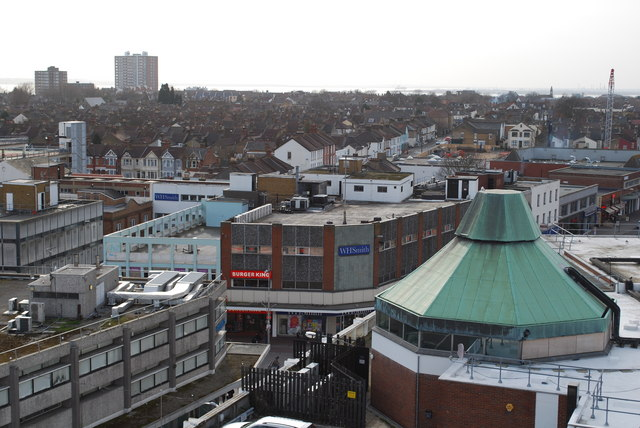 Victoria Circus 2009. An update of the 1969 picture 55665, taken 40 years later.